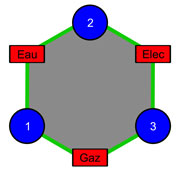 Use of Jordan curve theorem in order to solve the water gaz electricity enigma (4).